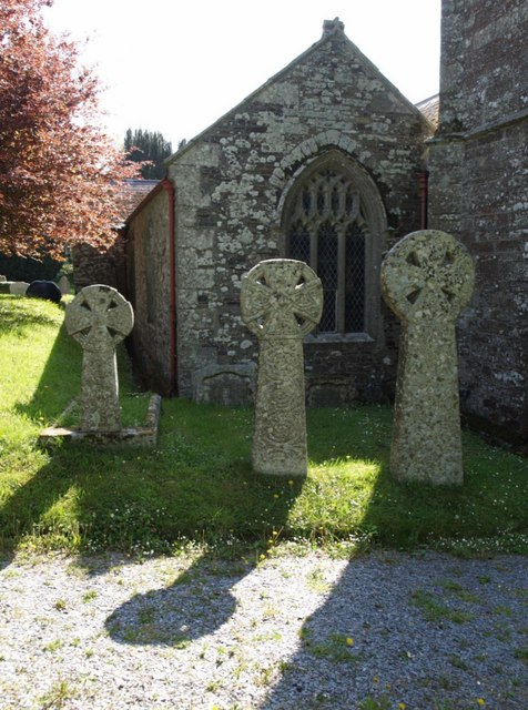 Celtic crosses at Marystow. Another view of 427178. St Mary's church is behind them.